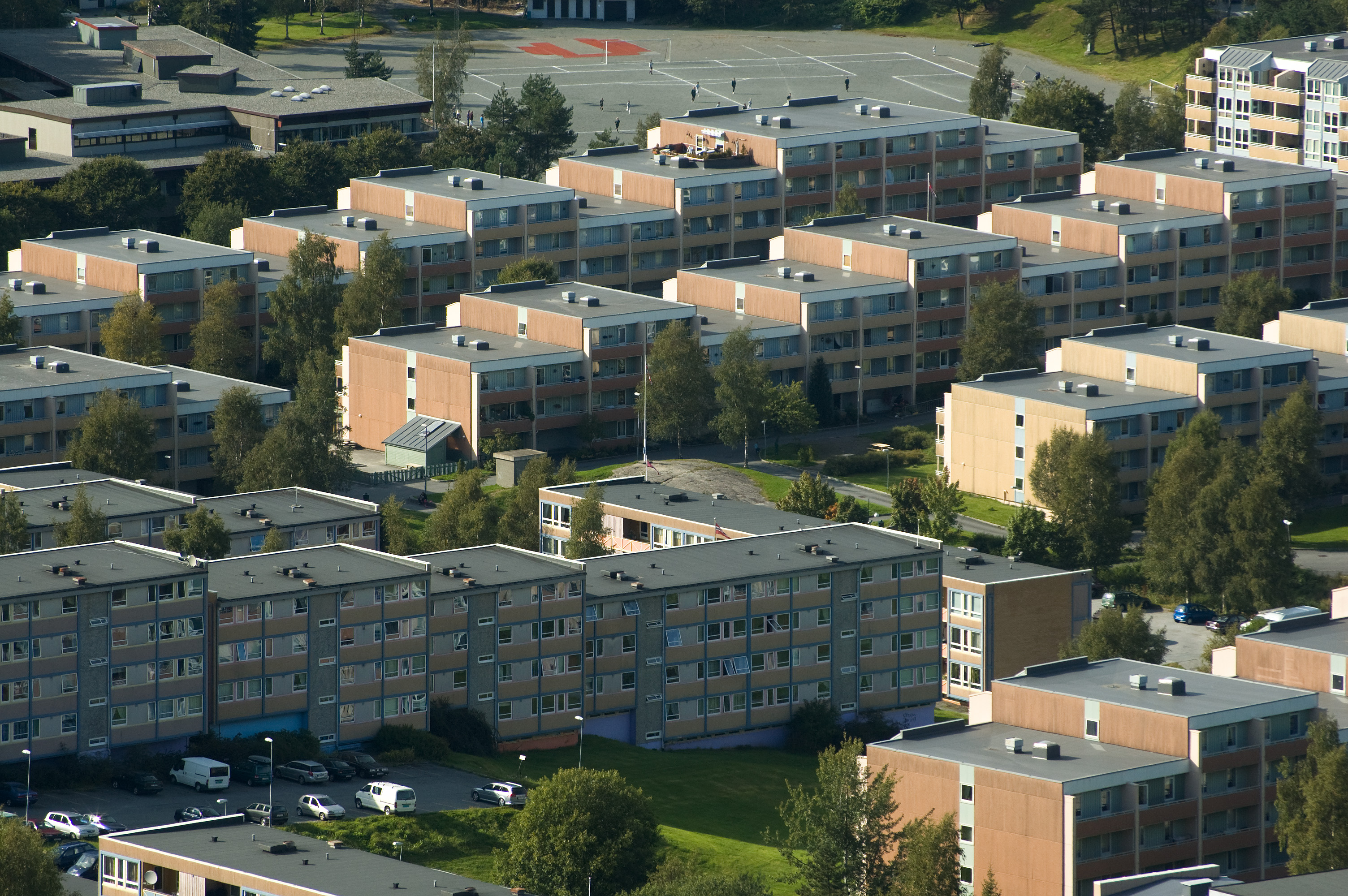 A typical borettslag in Fyllingsdalen in Bergen, Norway.